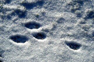 Lepus europaeus tracks on snow, from Commanster, Belgian High Ardennes (50°15'20"N 5°59'58"E)